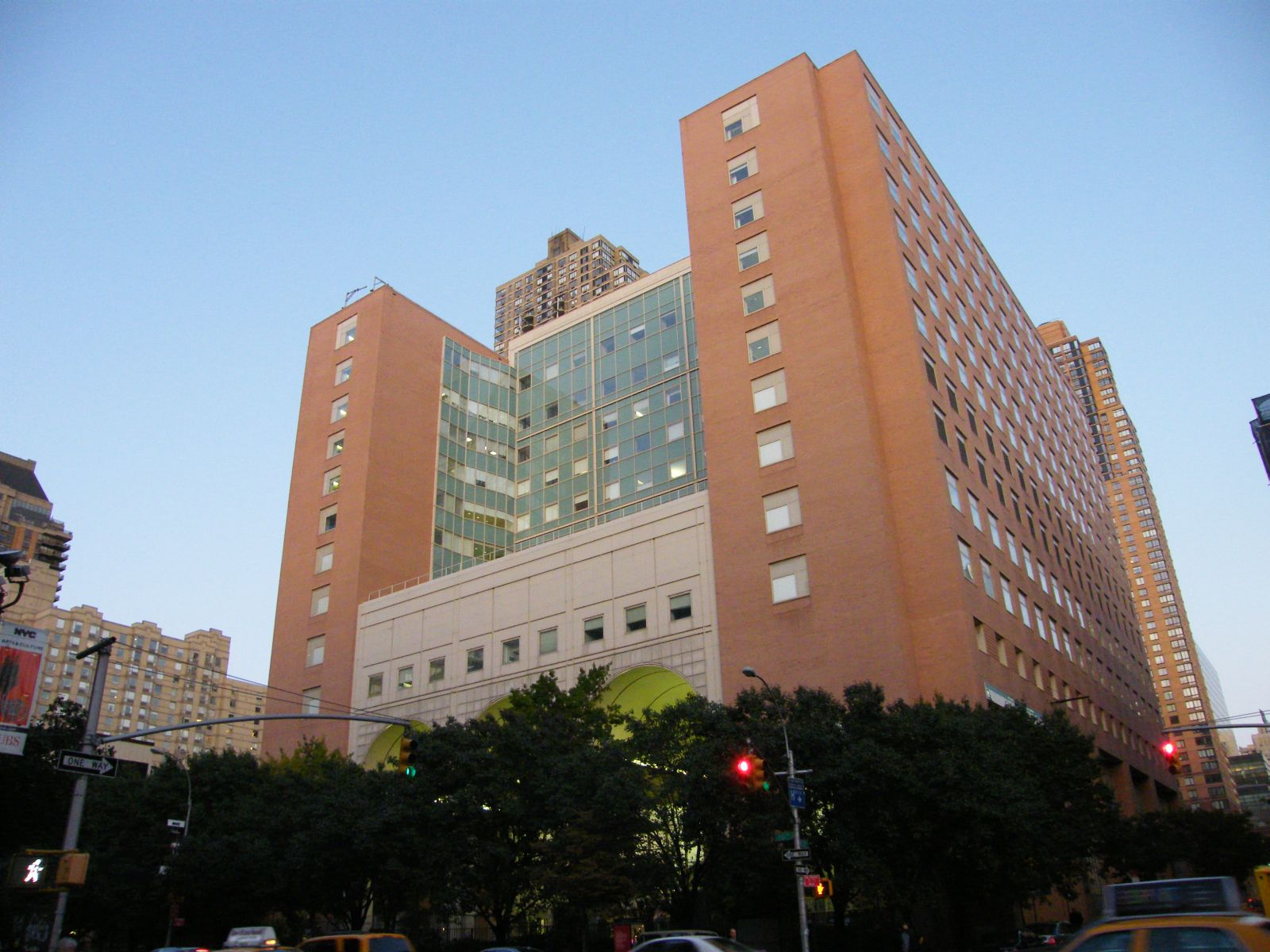 Mount Sinai West